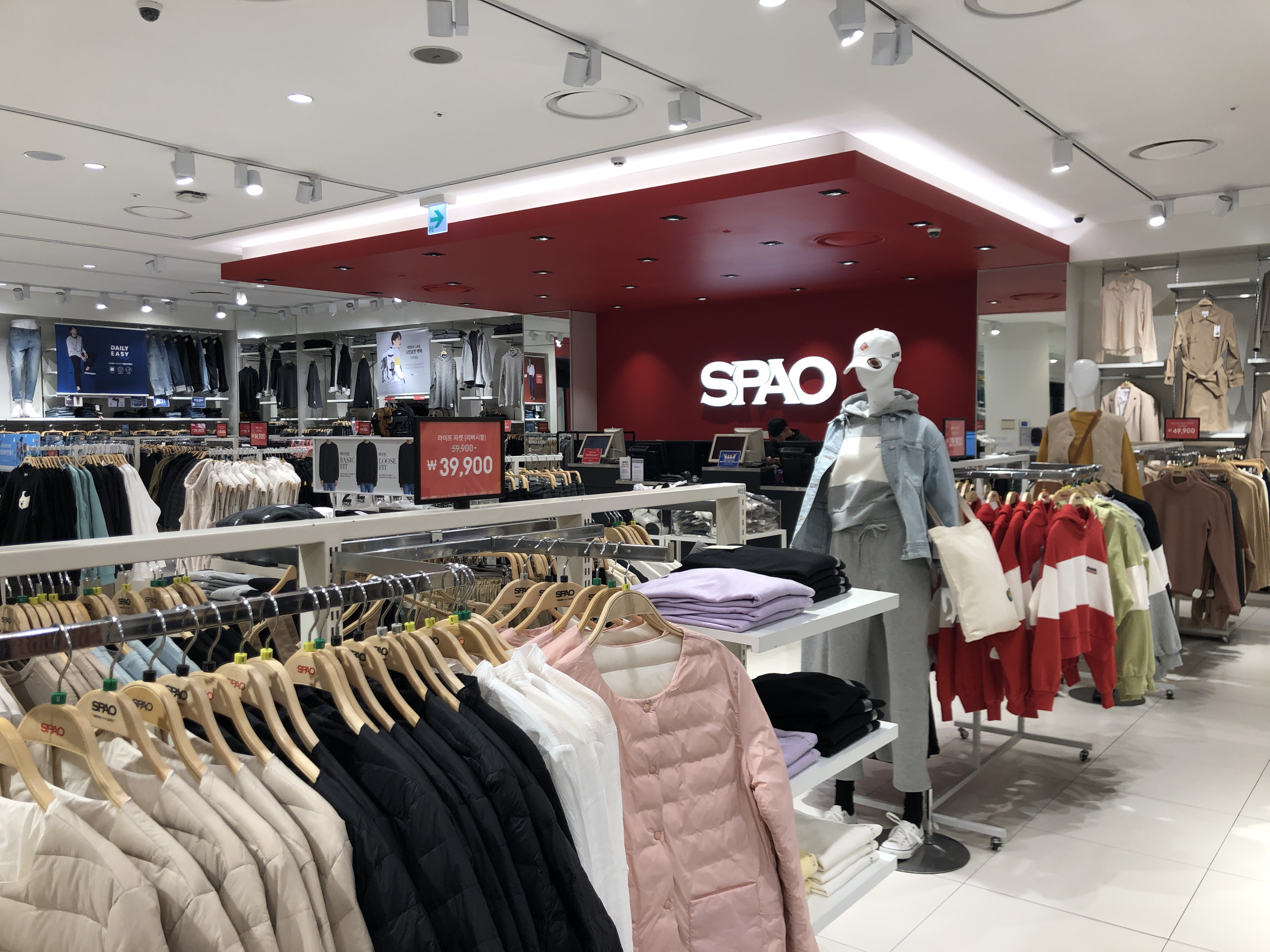 AK PLAZA Wonju, Category:Clothing shops in South Korea